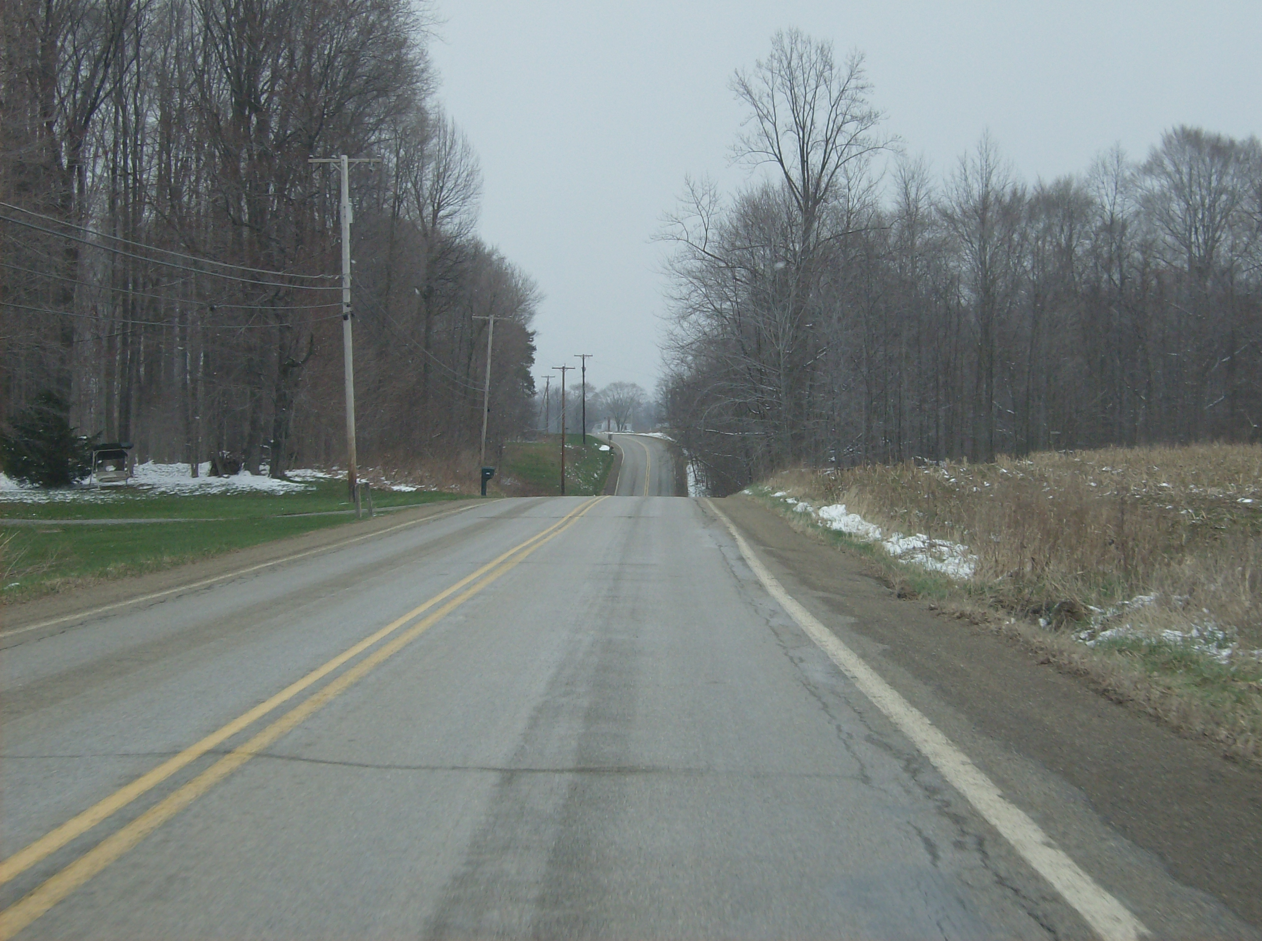 View along Pennsylvania Route 168 in Hickory Township, Lawrence County, Pennsylvania, United States.